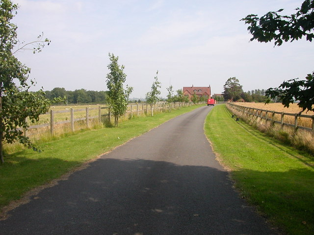 Marton Moor The lane which leads to Sandpit Farm